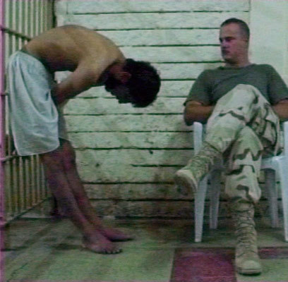 3:19 a.m., Oct. 17, 2003. SSG FREDRICK with detainee. SOLDIER: SSG FREDERICK. All caption information is taken directly from CID materials. U.S. Army / Criminal Investigation Command (CID). Seized by the U.S. Government.